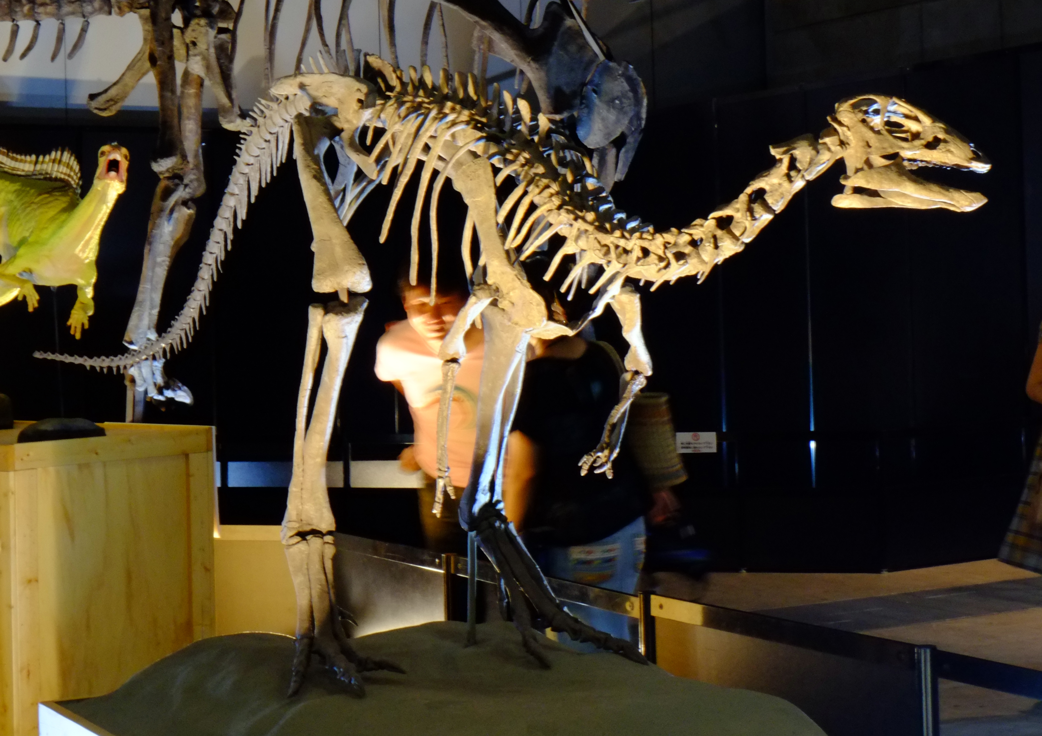 ドリオサウルスは敏捷で俊足。肉食恐竜の捕食対象でもあったため常に周りに気を配り、いつでも走って逃げ出せるようにしていた。